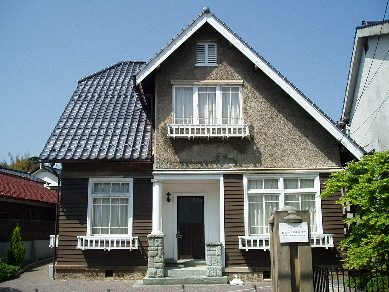 The Shimane University Old Okudani Lodging (The Matsue Senior High School Foreign Lodging)[1], located in Matsue, Shimane, Japan. A registered tangible cultural property of Japan (#32-0046).